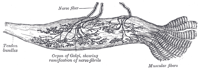 Organ of Golgi (neurotendinous spindle) from the human tendo calcaneus. (After Ciaccio.)